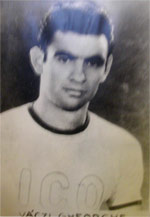 Gheorghe Váczi in the late 40's.